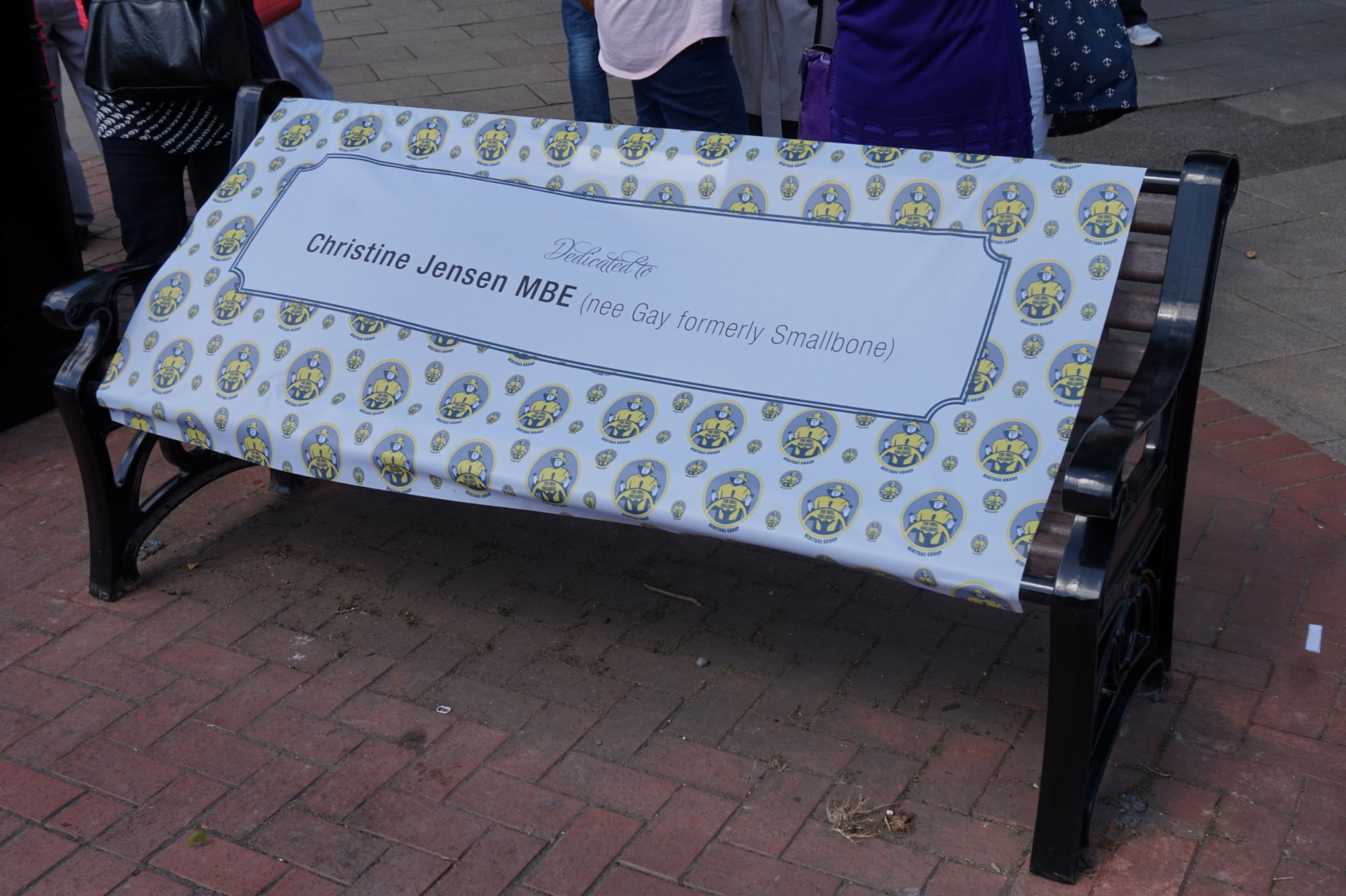 Bench dedicated to Christine Jensen MBE